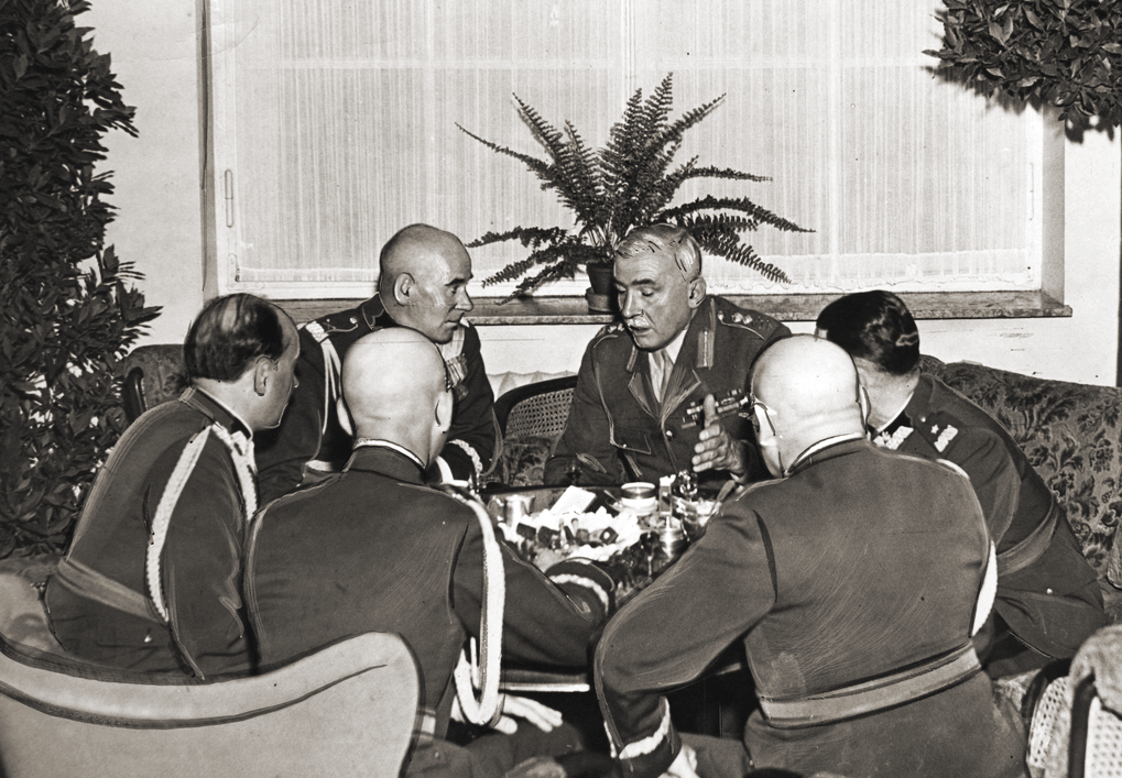 British-Polish military negotiations, summer 1939. In front Edmund Ironside, Edward Rydz-Śmigły Back:Mieczysław Norwid-Neugebauer, Aleksander Litwinowicz, Wacław Stachiewicz, William , Tadeusz Adam Kasprzycki